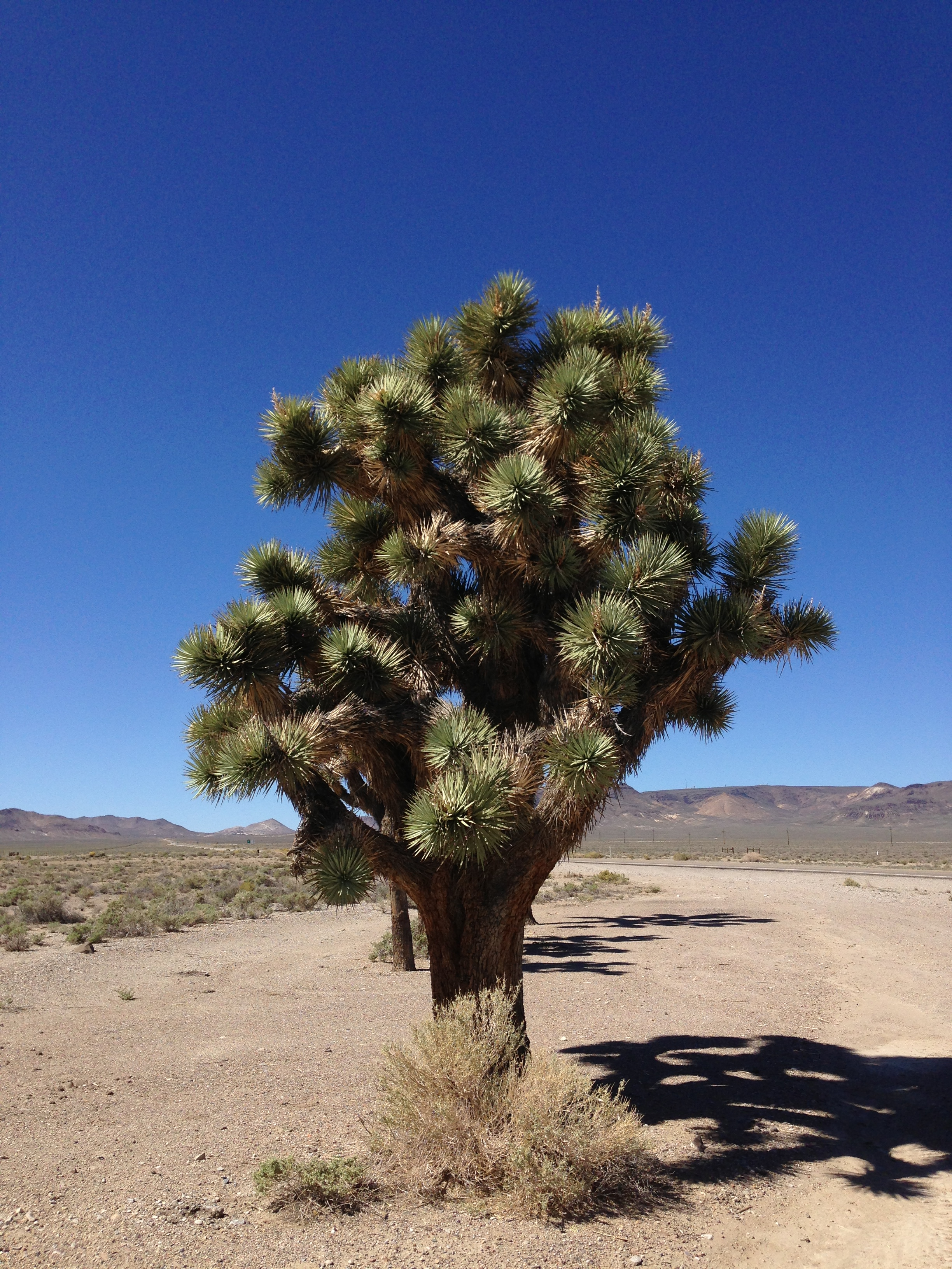 Joshua Tree at Tonopah Airport, Nevada